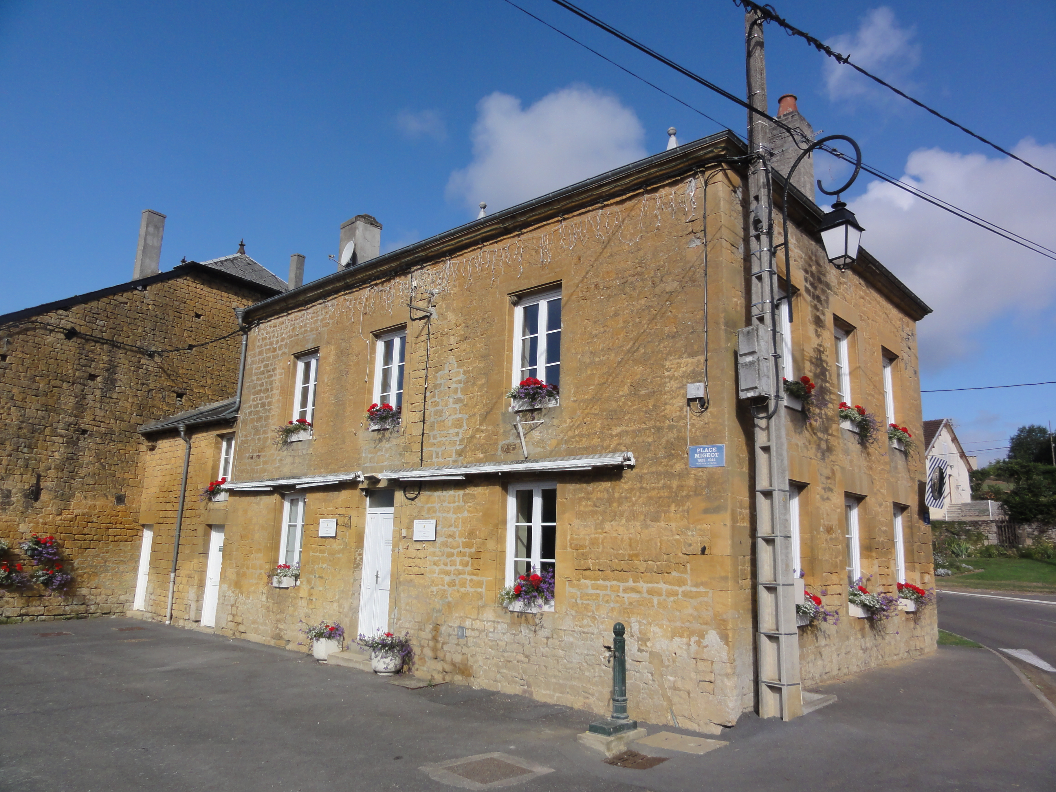 This (Ardennes) mairie